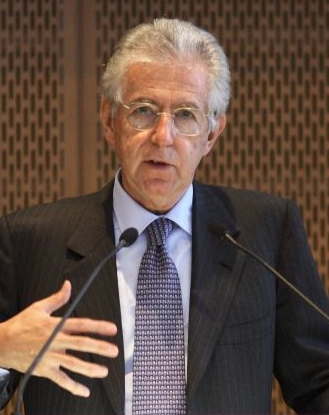 Prof. Mario_Monti